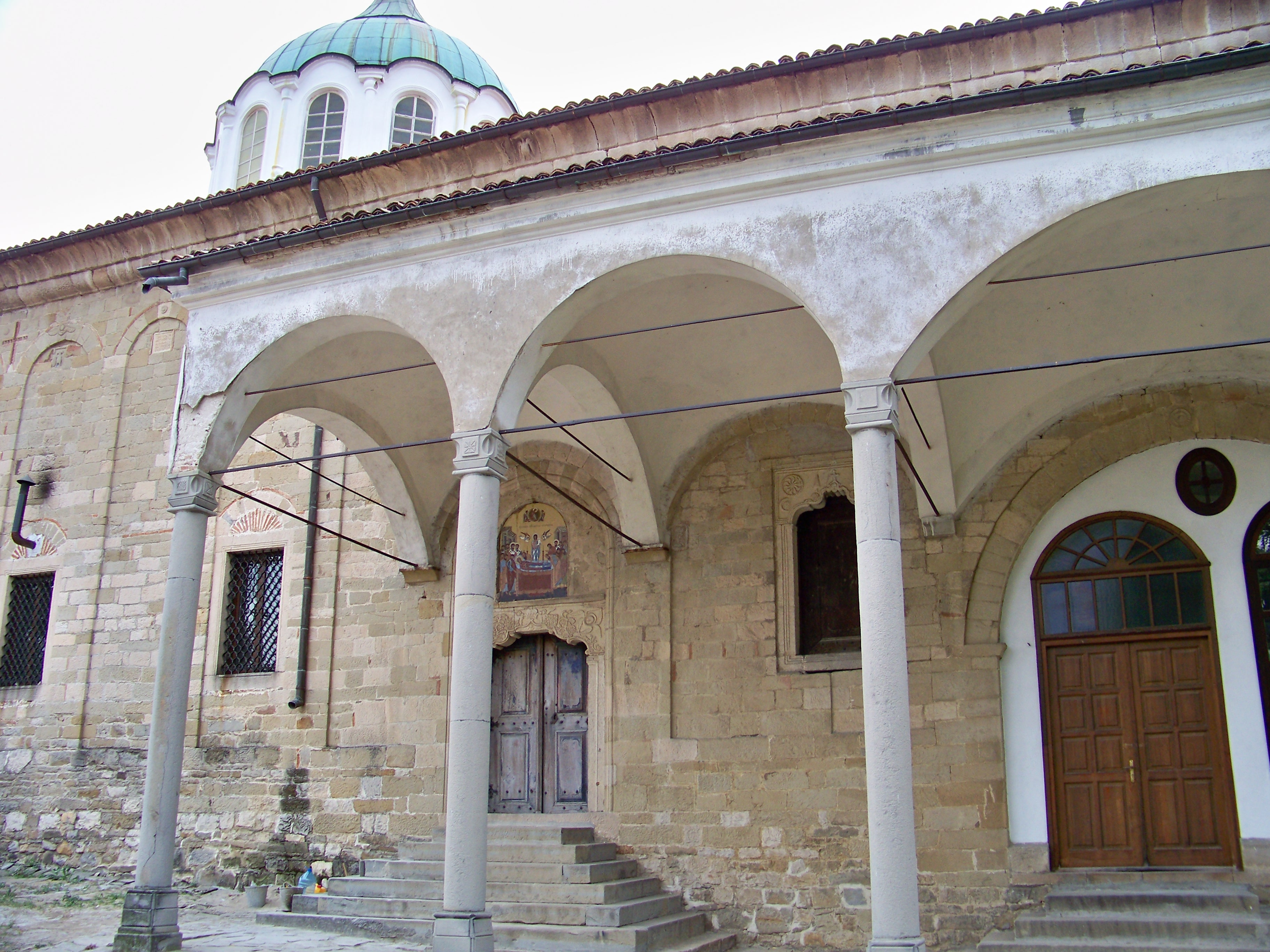 Elena (Bulgarian: Елена) is a Bulgarian town in the central Stara Planina mountains